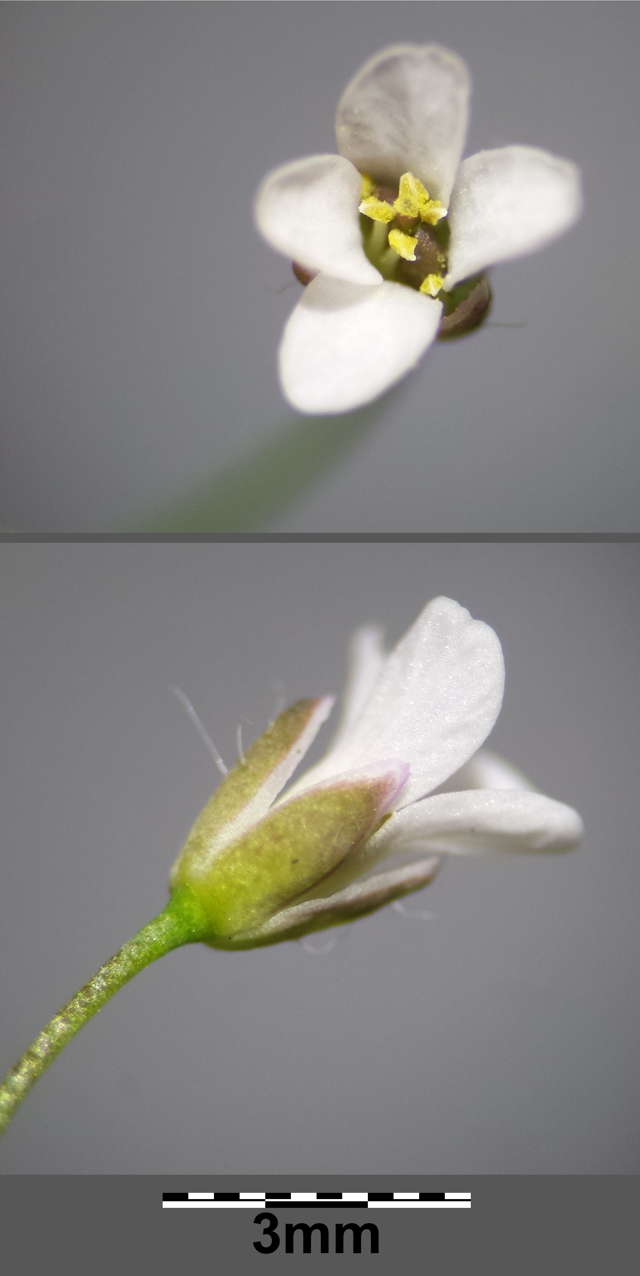 Flower Taxonym: Capsella bursa-pastoris ss Fischer et al. EfÖLS 2008 ISBN 978-3-85474-187-9 Location: Sinawastingasse, Vienna-Floridsdorf - ca. 160 m a.s.l. Habitat: slope